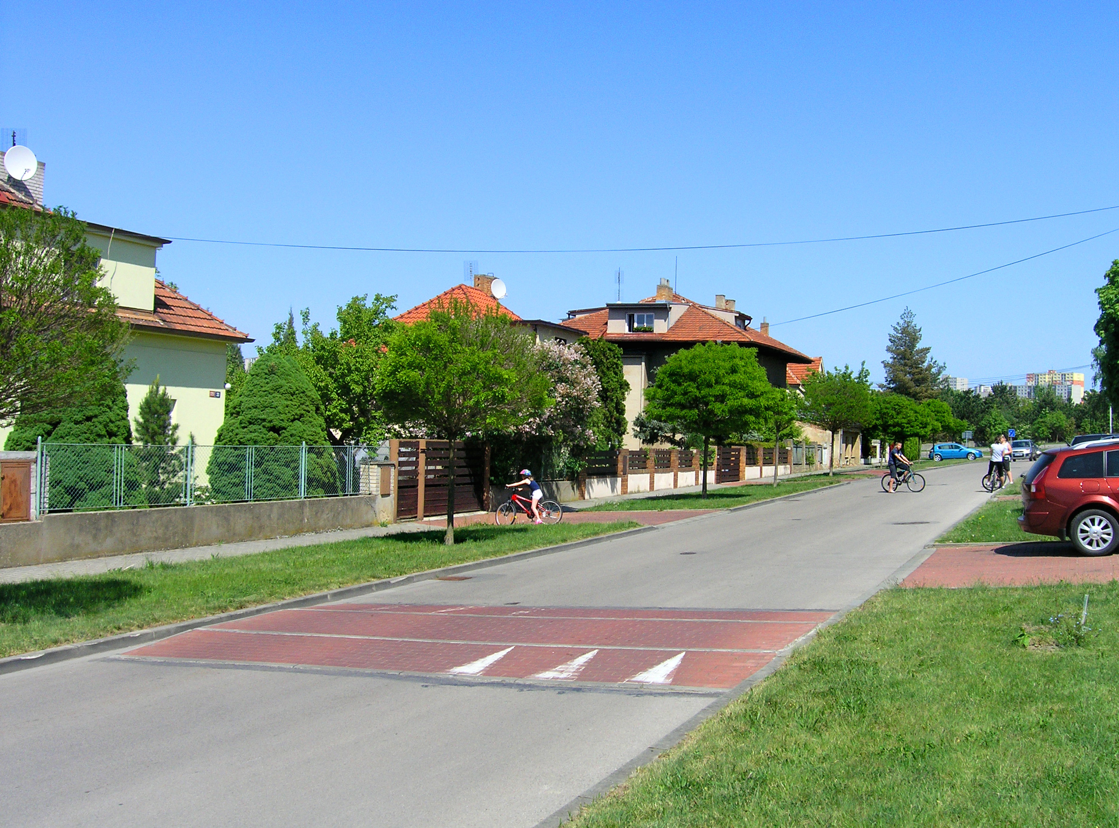 Rozvodova street in Modřany, Prague